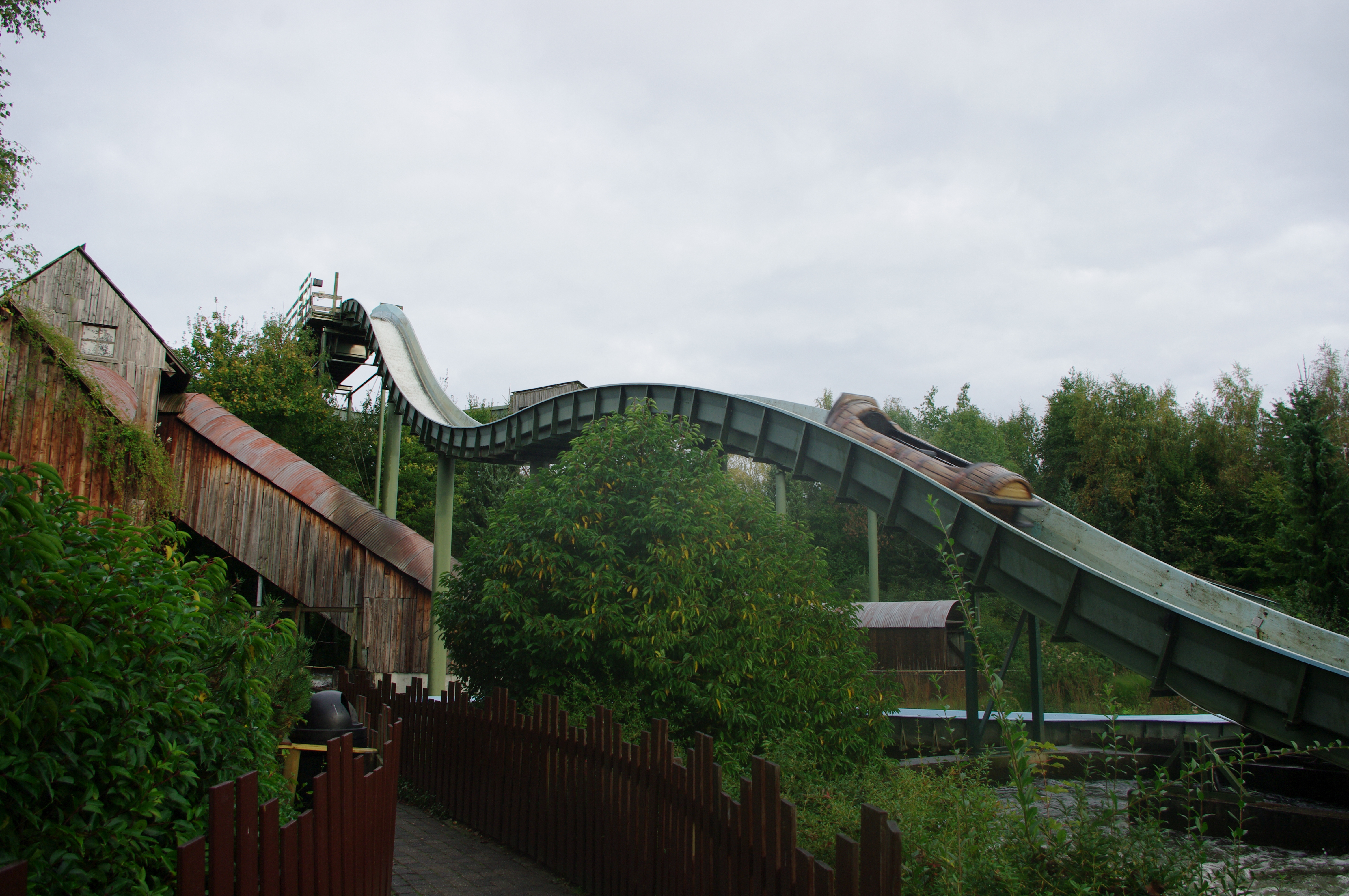 Crazy River in the Dutch themepark Walibi World.